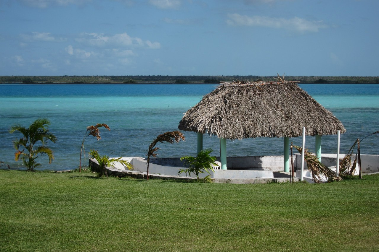 Lake Lagoon Bacalar, Mexico